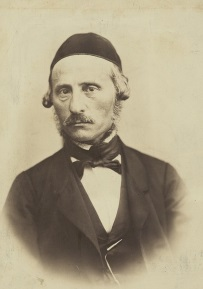 Eliezer Lipman Silbermann